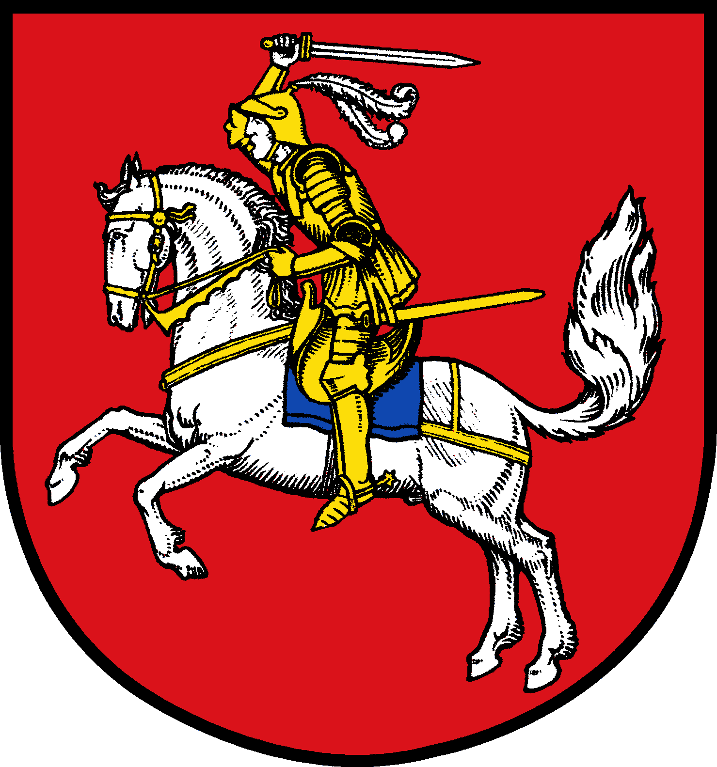 Coat of arms of the district Dithmarschen Blasonierung: In Rot auf silbernem galoppierenden Pferd mit goldenem Sattel, goldenem Zaumzeug und blauer Satteldecke ein golden gerüsteter, ein silbernes Schwert über dem Kopf schwingender Reiter mit silbernem Helmbusch.